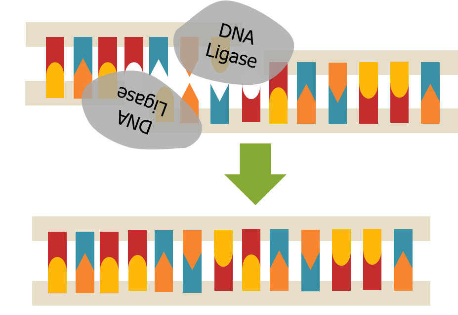 DNA ligase